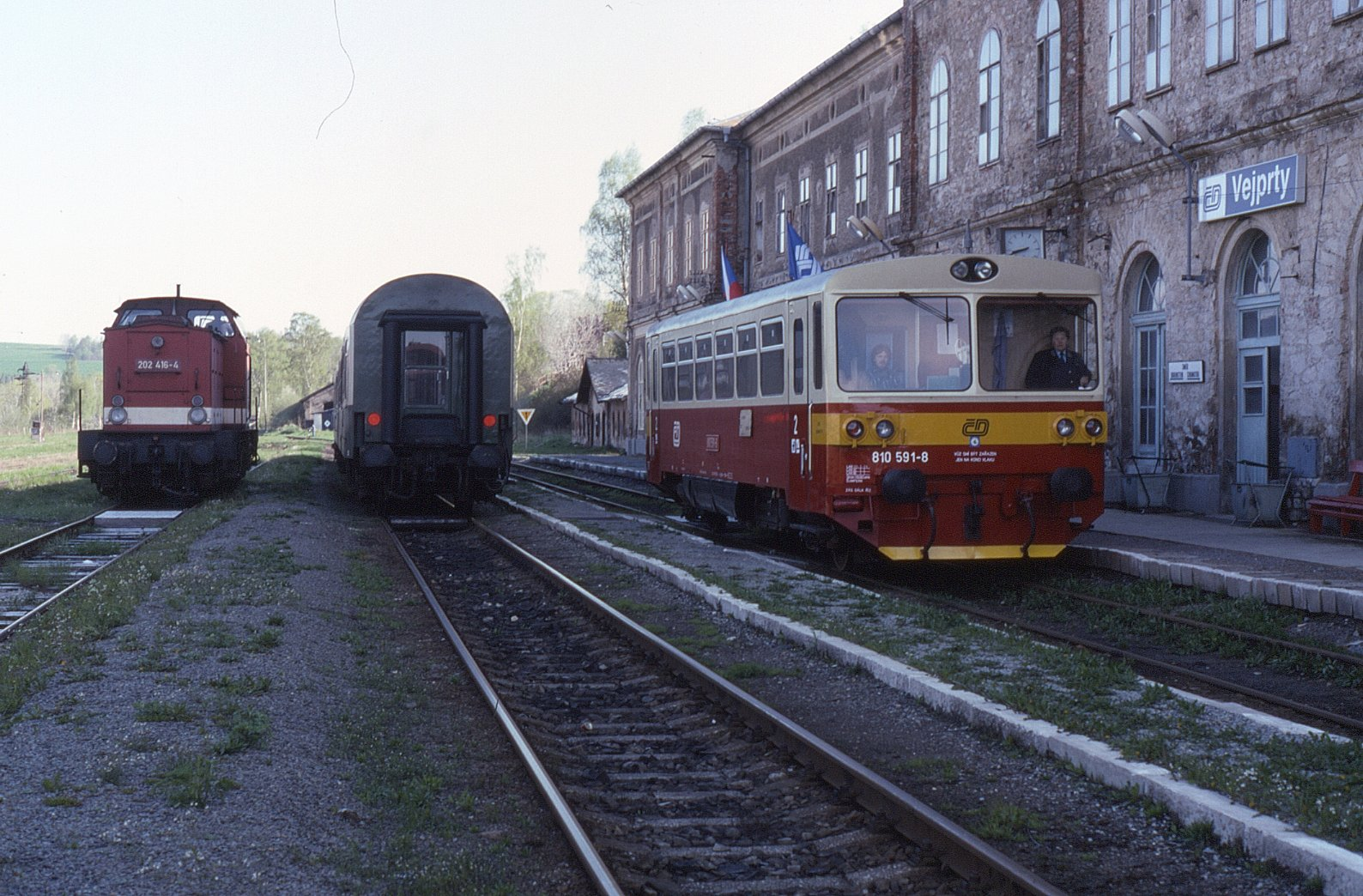 DB meets ČD. This view of two trains meeting at secondary border crossing at Vejprty was taken on 15 May 1995. DB train E3911, 06:34 Chemnitz Hbf to Vejprty was taken from Cranzahl. In this view, the class 202 had already uncoupled and was running round its coaches ready to form the service back. The connection onwards to Chomutov was formed of one of the ubiquitous 4-wheeled railcars built by Studénka. 810.591 would depart at 08:49, train 16805 through to Chomutov. The line has since closed on the Czech side.